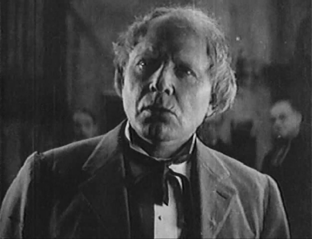 Low resolution screenshot of Ralph Lewis as Père Grandet in the American romantic drama film The Conquering Power (1921).